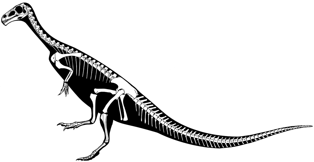 Skeleton reconstruction of Chilesaurus.